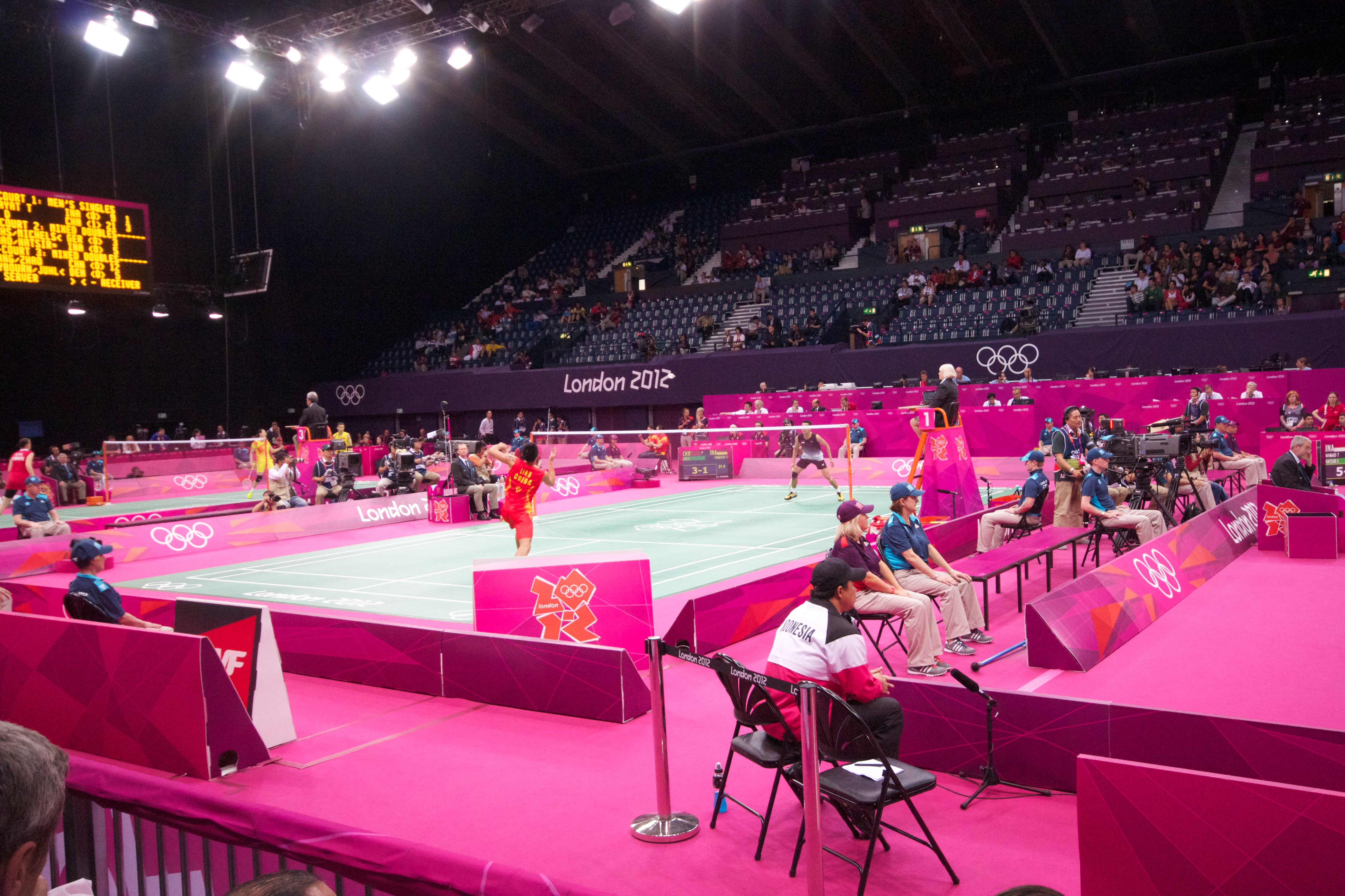 Badminton at the 2012 Summer Olympics